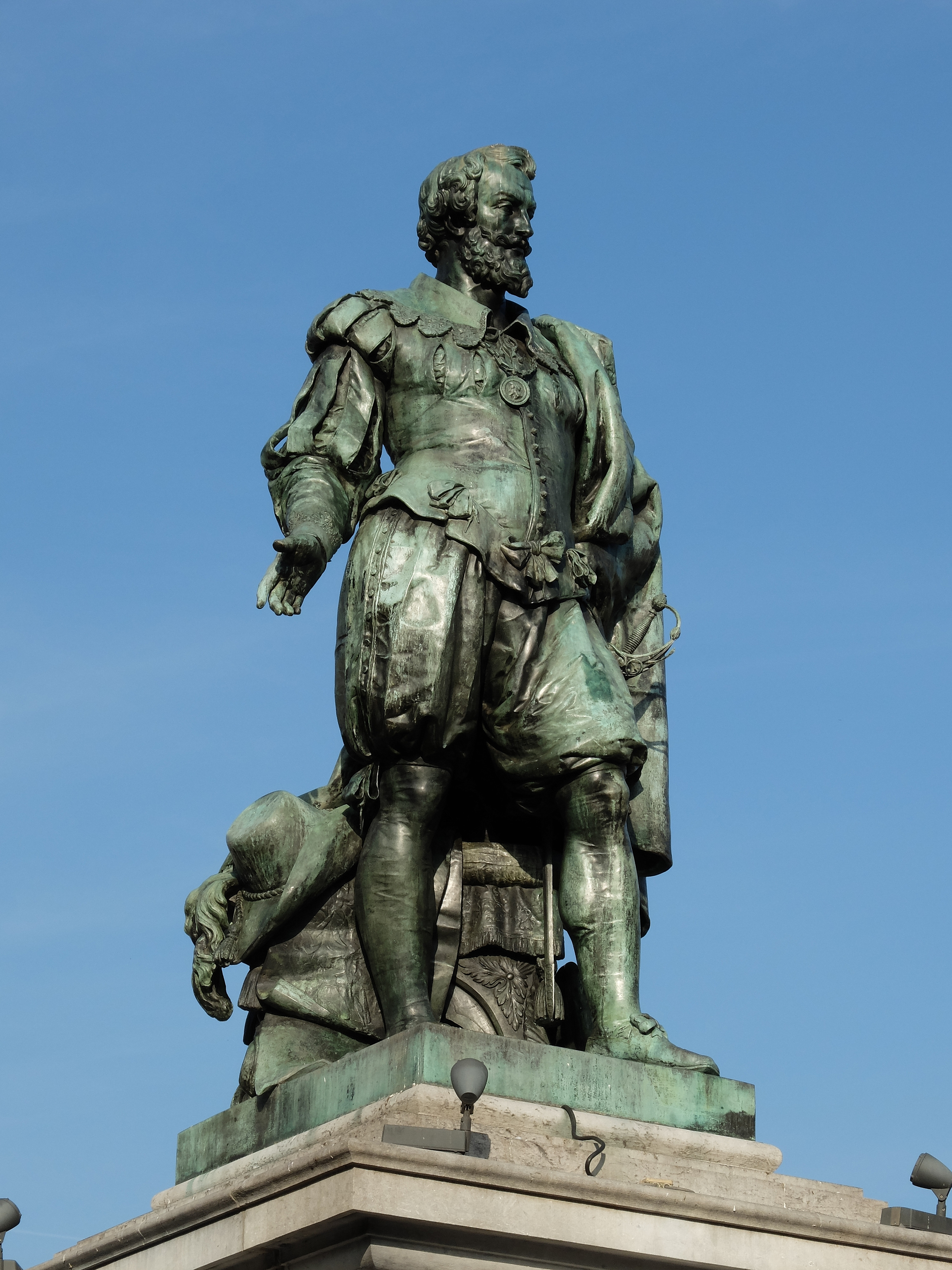 Standbeeld van Rubens op de Antwerpse Groenplaats